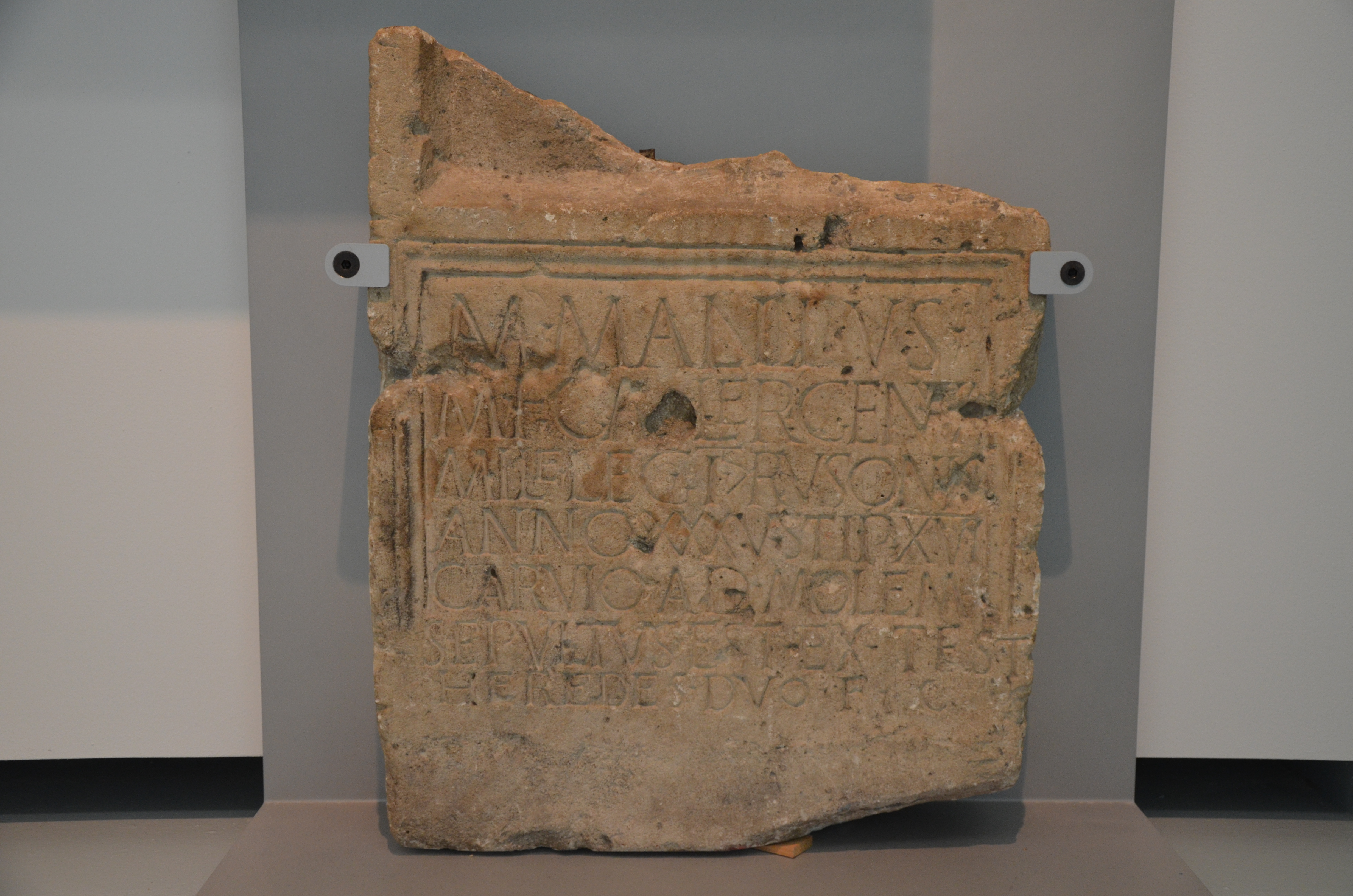 Museum het Valkhof, Nijmegen (Netherlands). AE 1939, 107 = AE 1939, 130: M(arcus) Mallius / M(arci) f(ilius) Genua / mile(s) leg(ionis) I )(centuria) Rusonis / anno(rum) XXXV stip(endiorum) XVI / Carvio ad molem / sepultus est ex test(amento) / heredes duo f(aciendum) c(uraverunt)